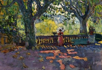 Painting "Elegante sur la terrasse" from Jean Roque